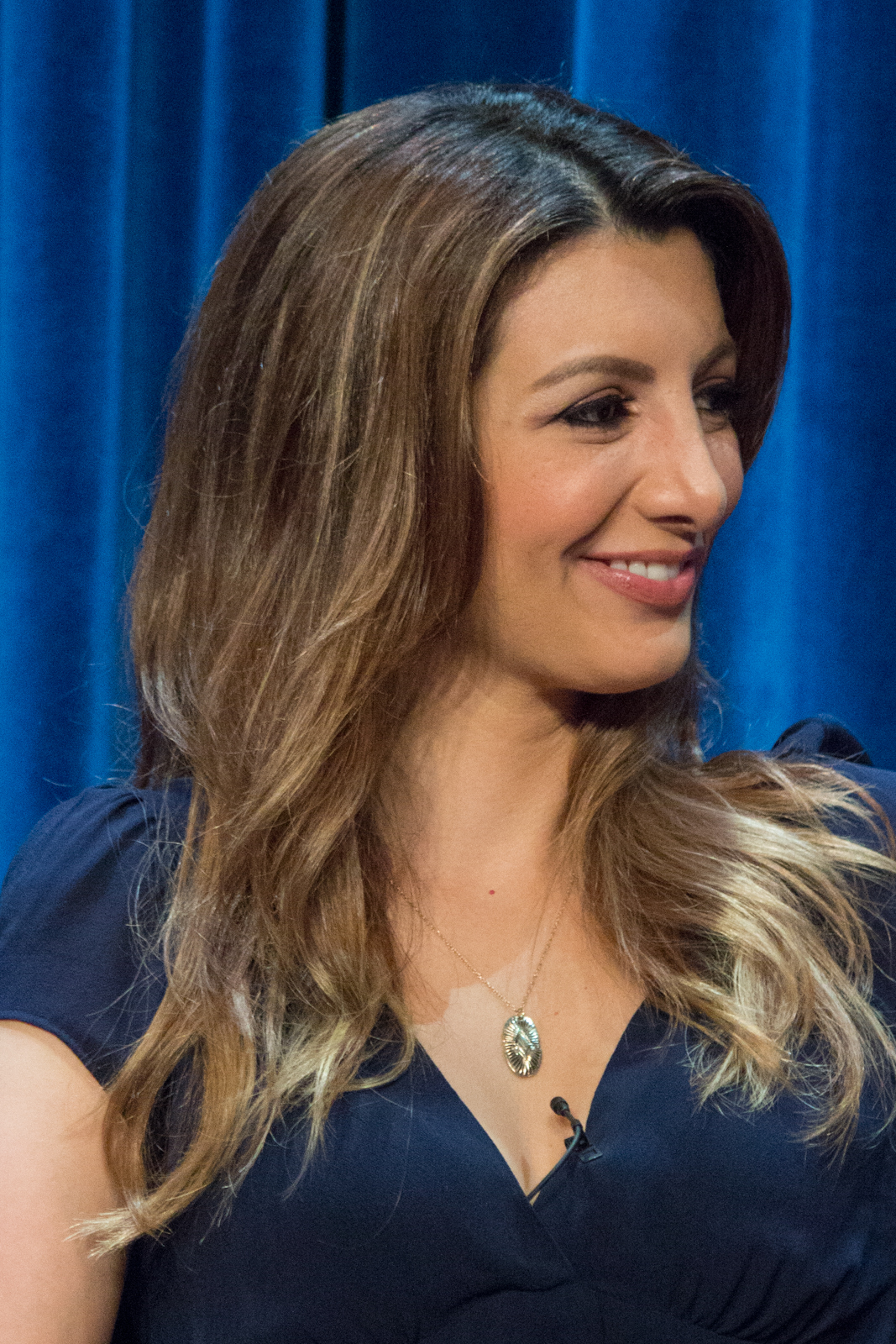 Nasim Pedrad at PaleyFest Fall TV Previews 2014 for the TV show "Mulaney"